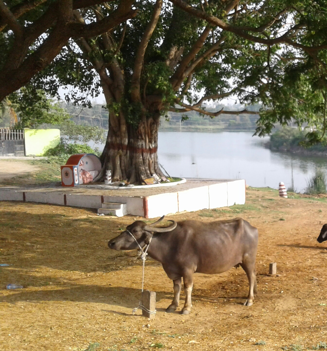 This lake walk begins from the back of the Yelwala Juma Masjidh in Mysore city, Karnataka state, India.